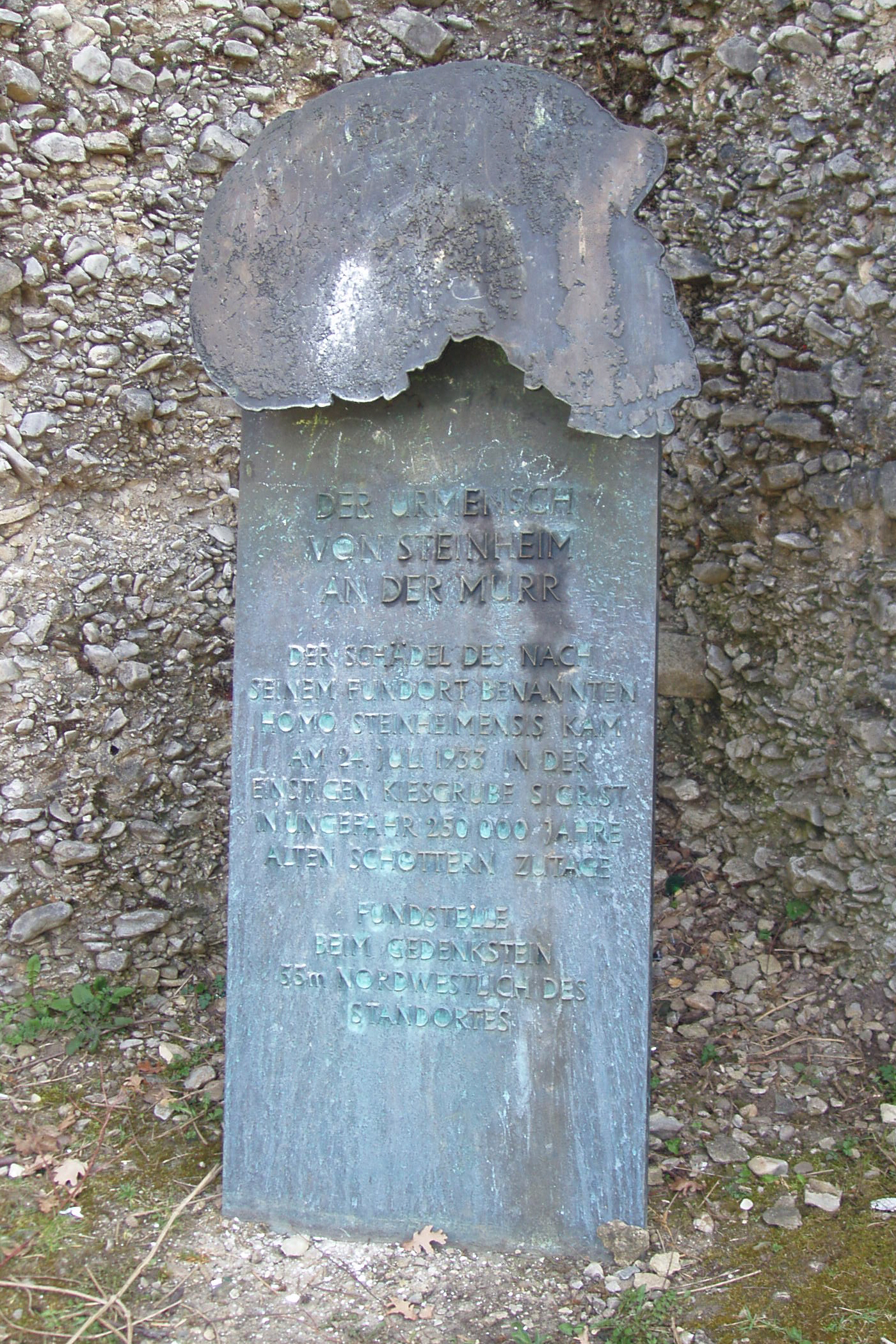 Memorial close to the place where the 250.000 years old scull of Homo steinheimensis was found